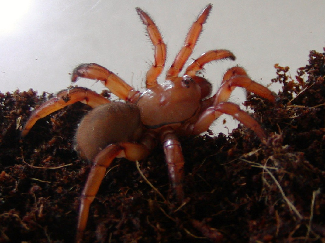 Photographer: Glen Egebrecht Gorgyrella sp. "African Red Trapdoor Spider" Wild Caught (F)